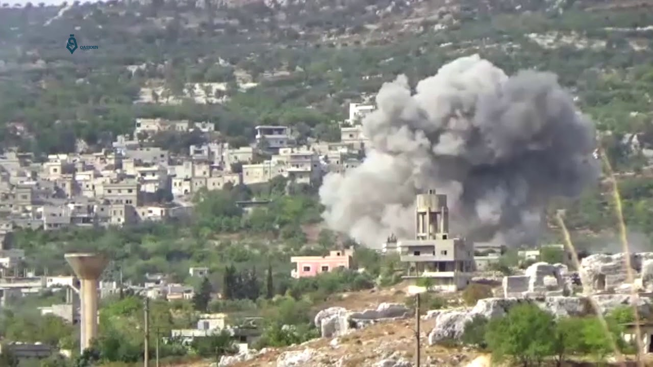 A Syrian or Russian airstrike hit the town of Bidama in the western Idlib Governorate.